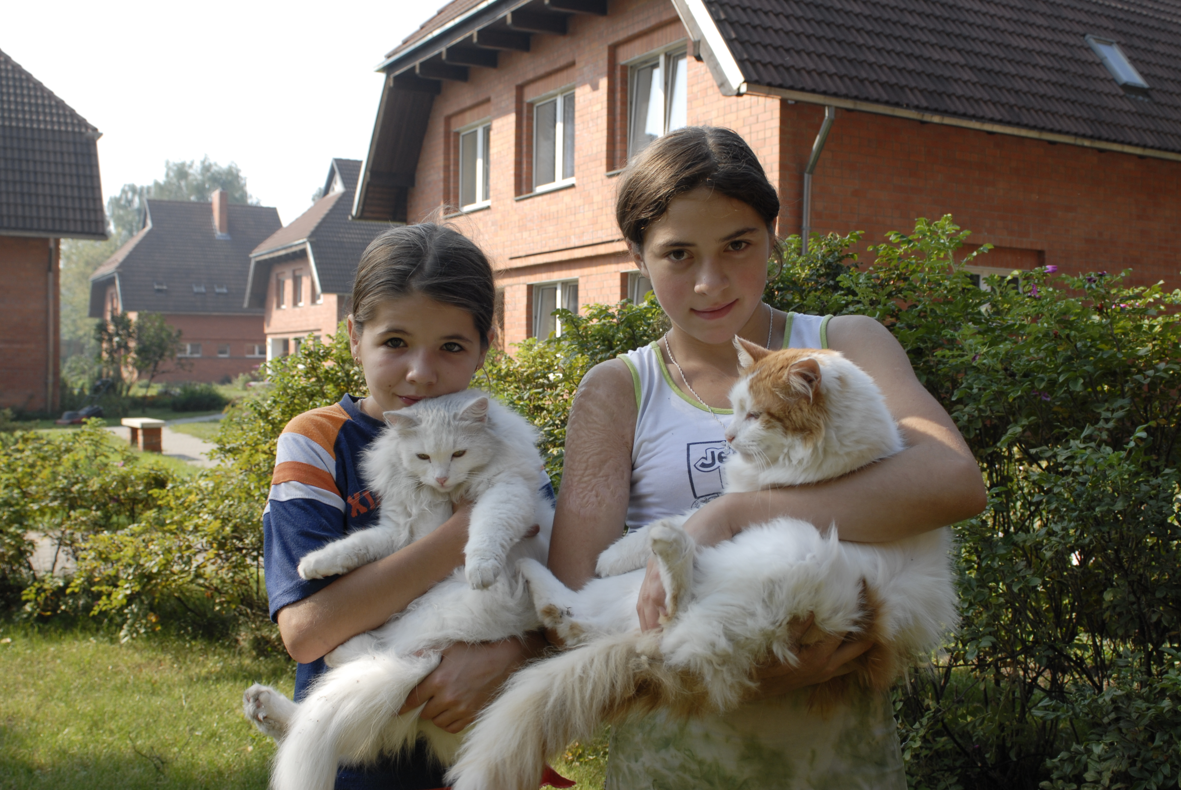 SOS Children's Village Tomilino. Moscow Oblast. Russia // Детская деревня-SOS Томилино. Московская область. Россия